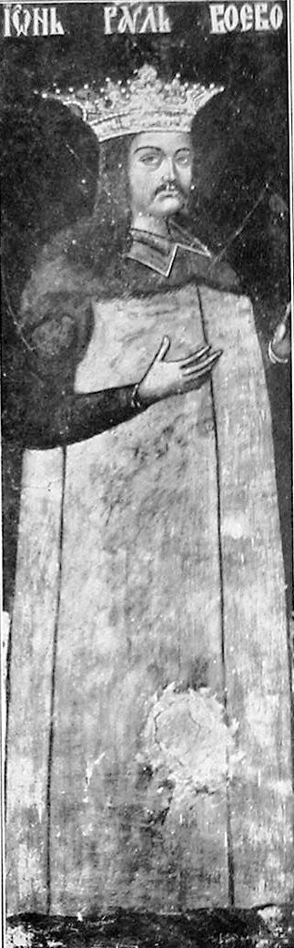 Radu cel Mare in the episcopal church from Argeş